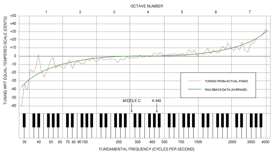 the Railsback Curve, a plot of typical detuning of a piano from an even-tempered scale